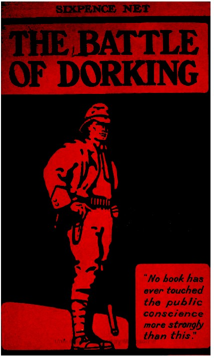 Battle of Dorking, cover page, 1914